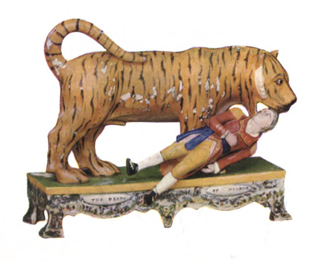 "Death of Munrow" - Staffordshire pottery group, Walton School